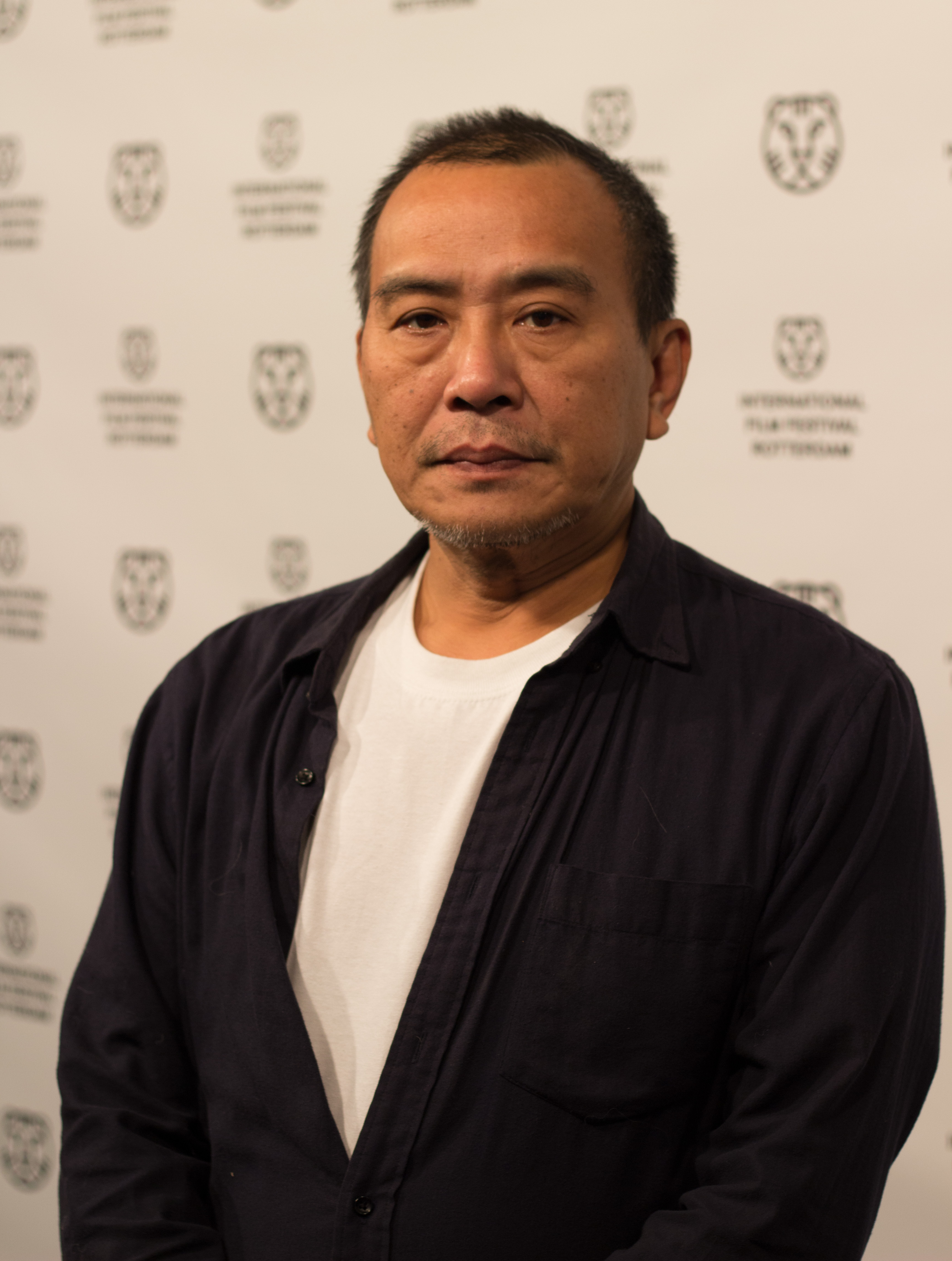 Chang Tso-chi at the IFFR 2020